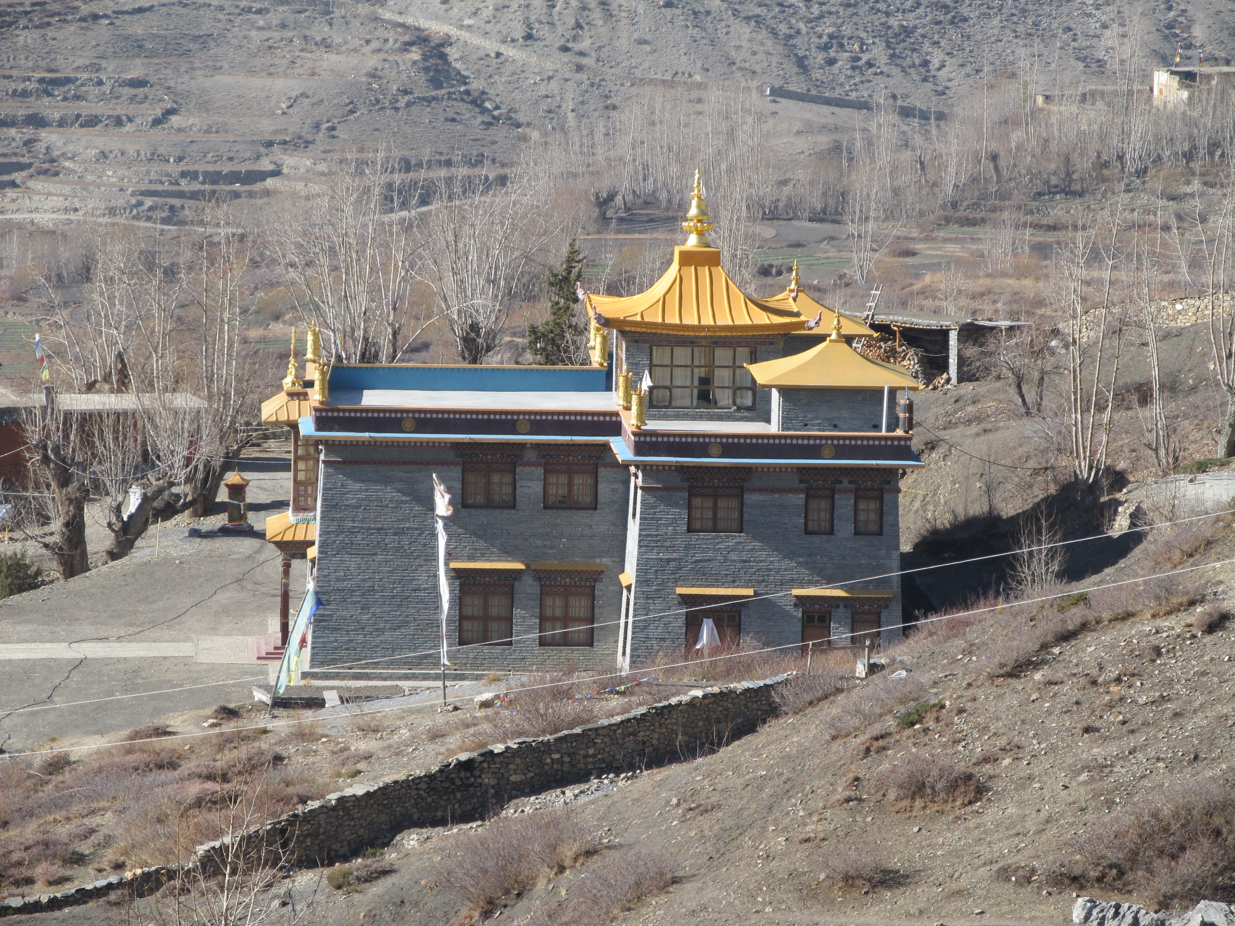 Buddhist monastery near Shiva Parvati Mandir, Muktinath